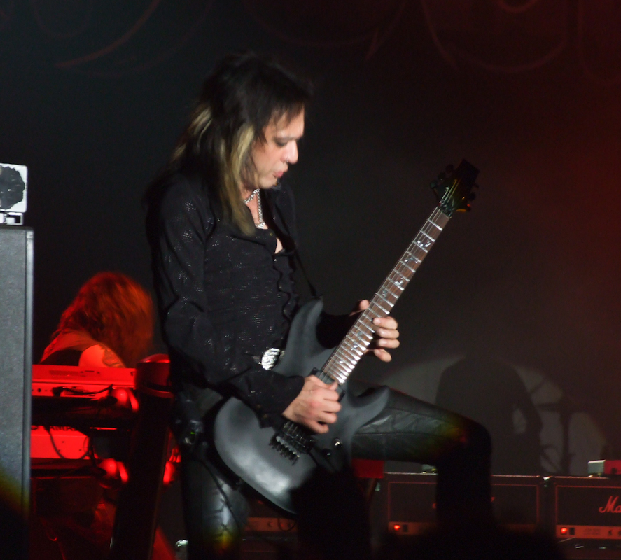 The American guitarist Jeff LaBar with Cinderella at Festivalna Hall in Sofia, Bulgaria.